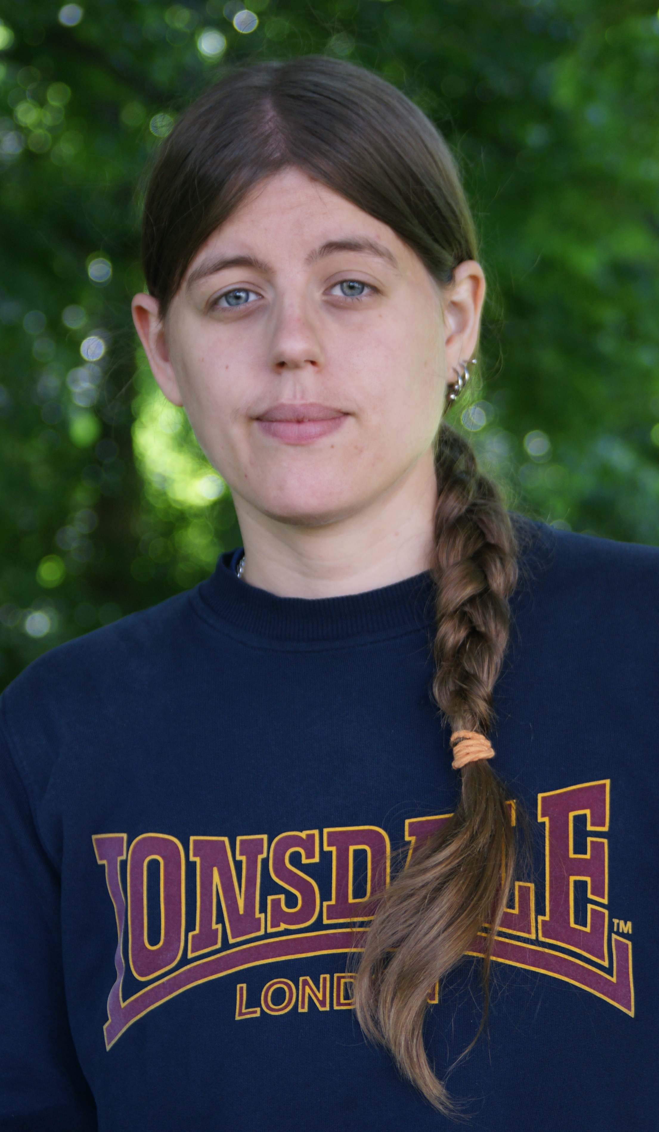 Swedish illustrator, comic creator and author Hanna Gustavsson, 2016.